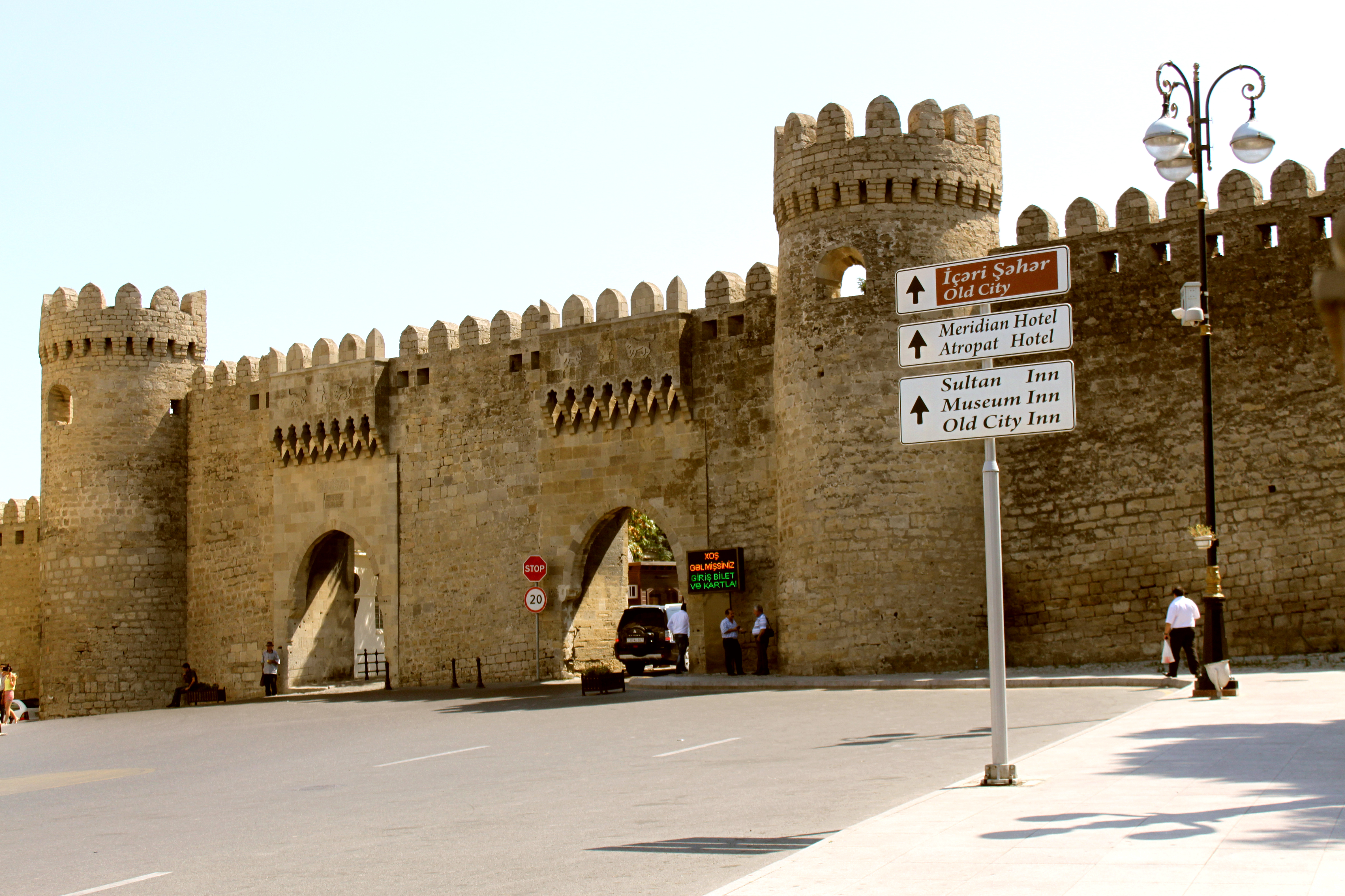 Baku castle gates